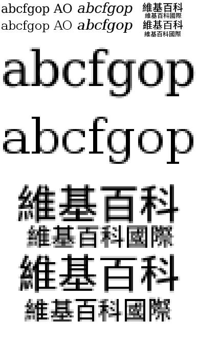 An example of font hinting (taken from a screenshot of the GNOME font settings dialog). This shows the font with and without hinting first at 100% then at 400% to show detail.